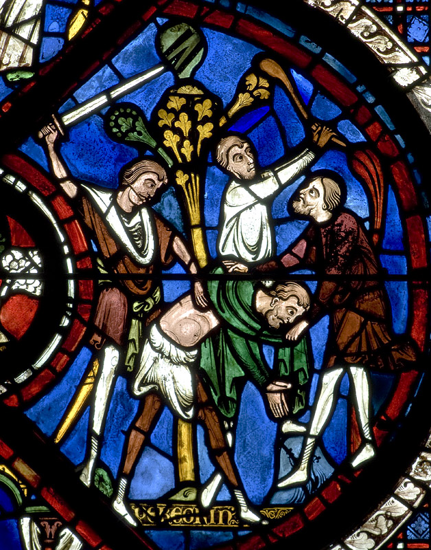 "The Pilgrim is beaten, stripped and robbed."